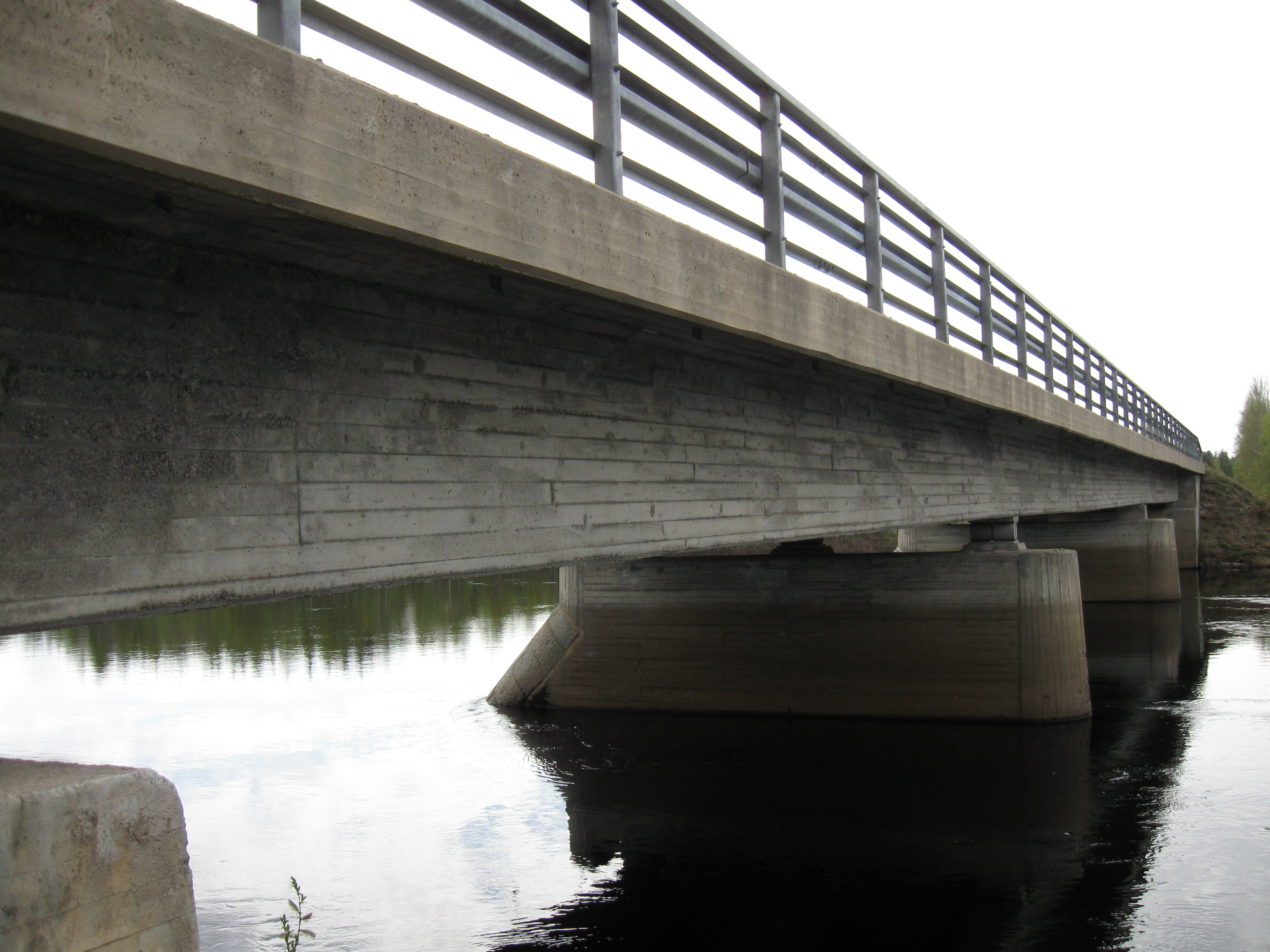 The bridge accross the Kiiminkijoki River at Määtänvirta, in the Olvasjärventie road in Juorkuna, Utajärvi, Finland.